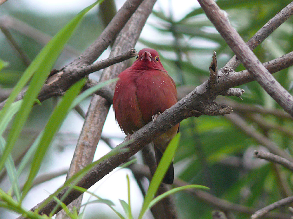 Male red-billed firefinch (Lagonosticta senegala) photographed in Kédougou, Senegal